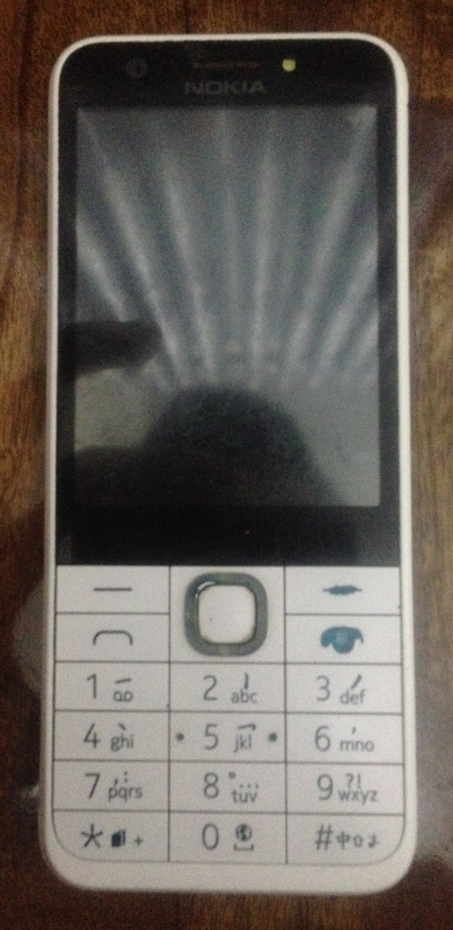 A Picture of Nokia 230